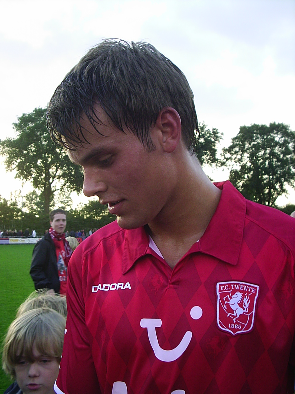 FC Twente player Stefan Thesker